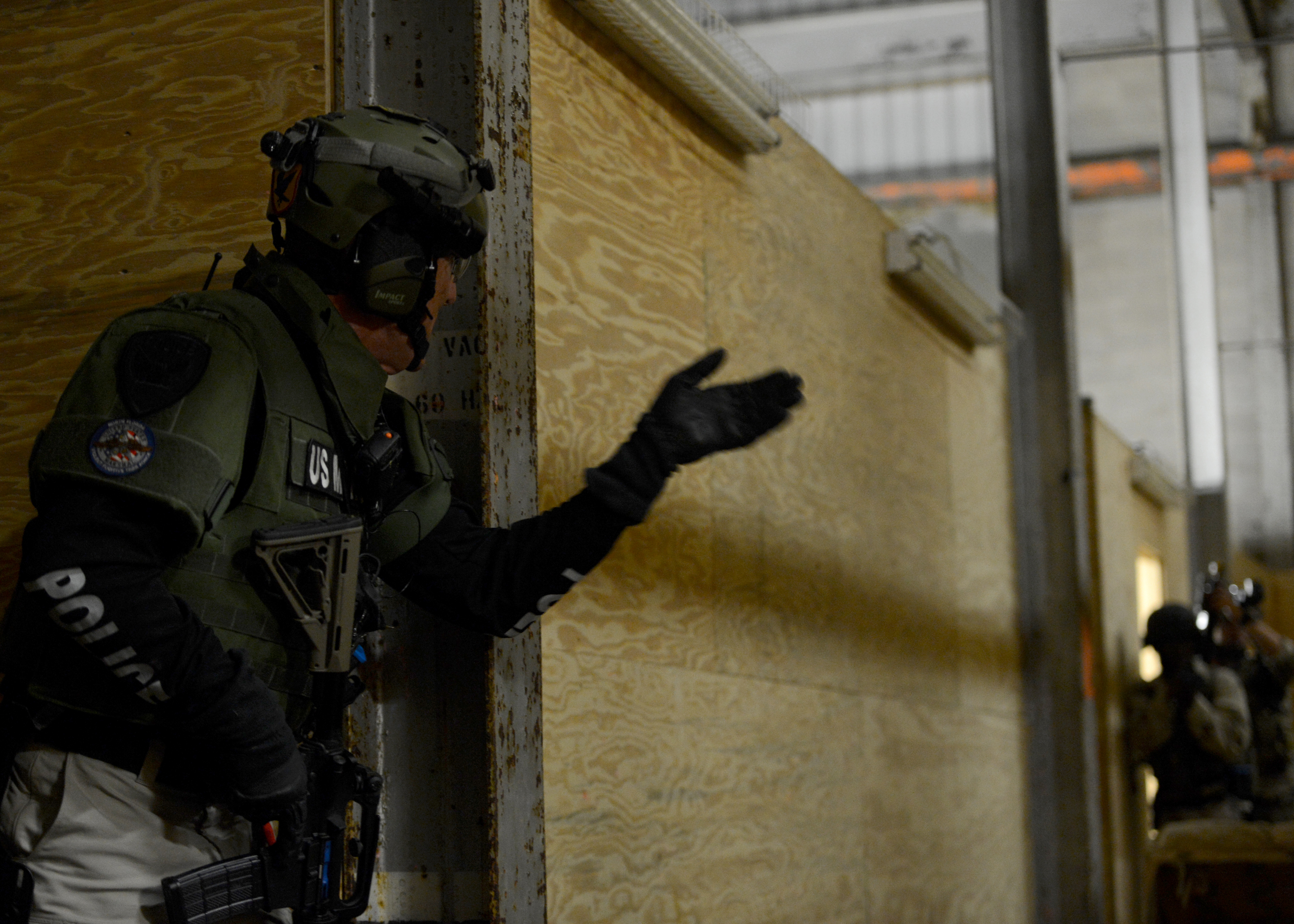 U.S. marshals based in northern Florida participate in close-quarters battle training at Hurlburt Field, Fla., with U.S. Service members assigned to the Air Force 1st Special Operations Support Squadron who are role-playing as opposing forces May 7, 2014, during Emerald Warrior 14. Emerald Warrior is a U.S. Special Operations Command-sponsored two-week joint/combined tactical exercise designed to provide realistic military training in an urban setting. (U.S. Air Force photo by Senior Airman Justyn M. Freeman/Released)